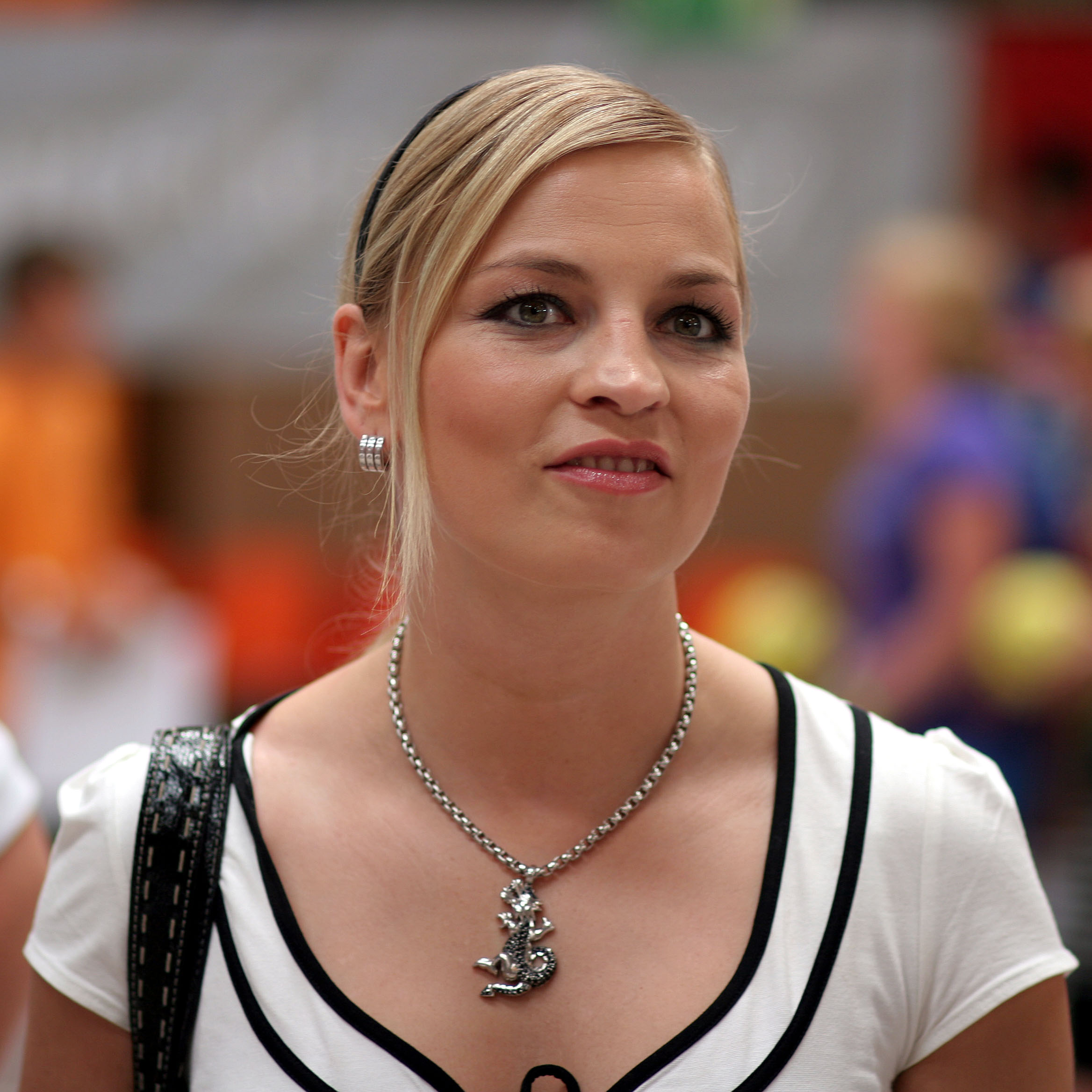 Regina Halmich, former German box champion, on August 30th, 2008 in Ehingen prior a game for the Schlecker Cup 2008